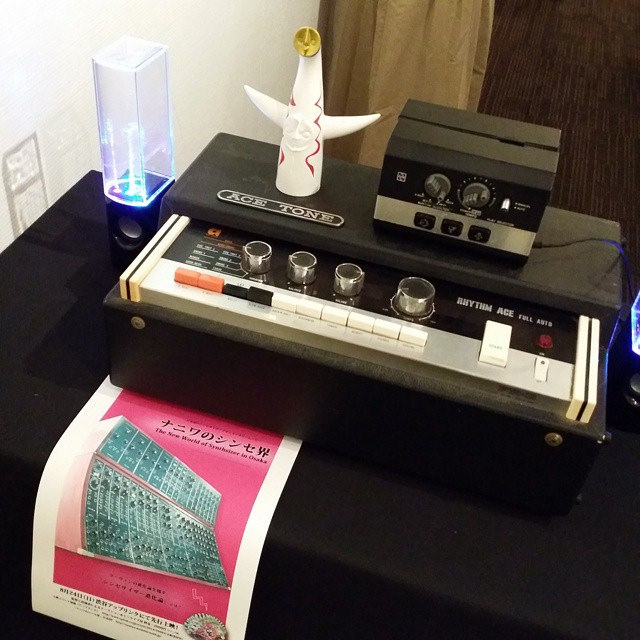 “August 24, 2014 at FACTORY (1F), UPLINK, Shibuya. [1st] 16:30 opening / 17:00 start, [2nd] 19:00 opening / 19:30 start. Ticket: ￥2000 (+ 1 drink ￥500 )”] (1969) Ace Tone Catalog 1969, Sorkin/Ace Tone, p. 7. Archived from the original on 12 May 2014. “MODEL FR-3 AUTO RHYTM ACE ...”